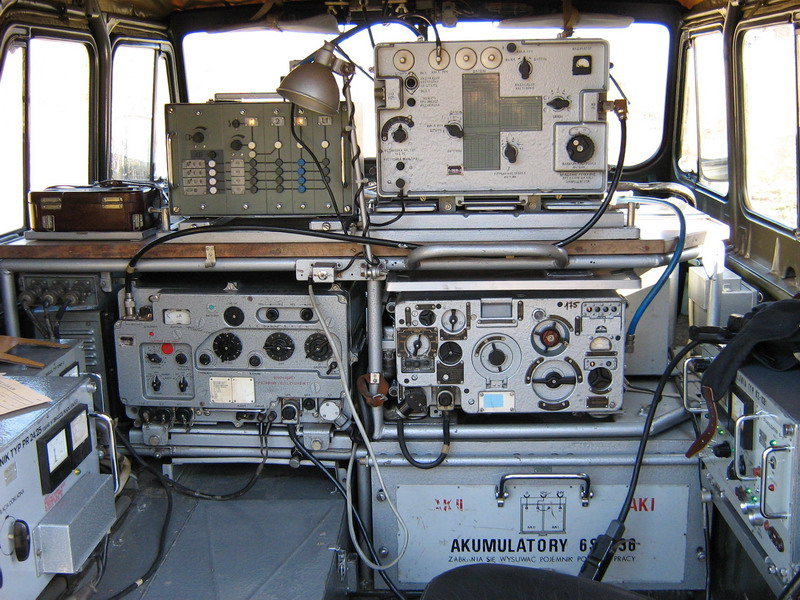 Military (airborne) radio station RD-115 (interior view, radio operator´s position) on military vehicle UAZ-469, Polish Army (special version: airborne troops).